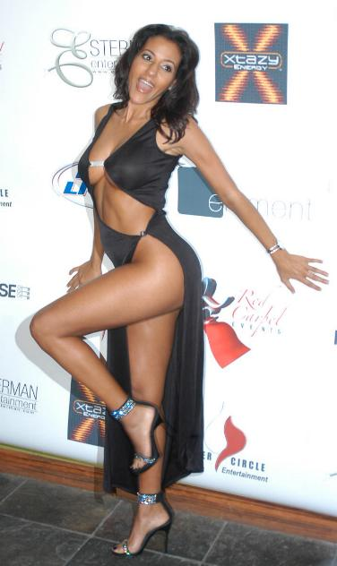 Rita G., American model. Taken at Ron Jeremy's birthday party, 2007